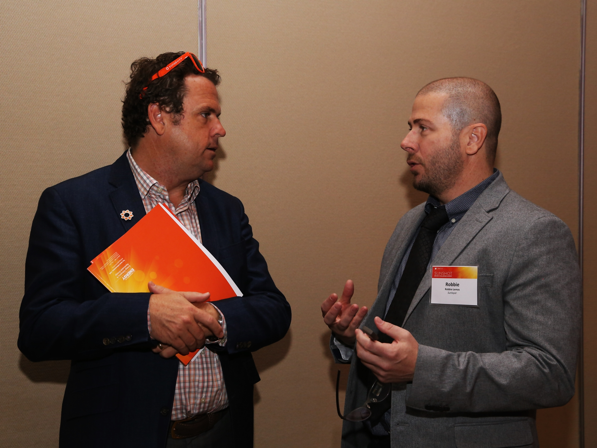 Danny Kennedy, Sungevity Co-Founder and Senior Vice President, chatting at a keynote session break. Photo Credit: SunShot